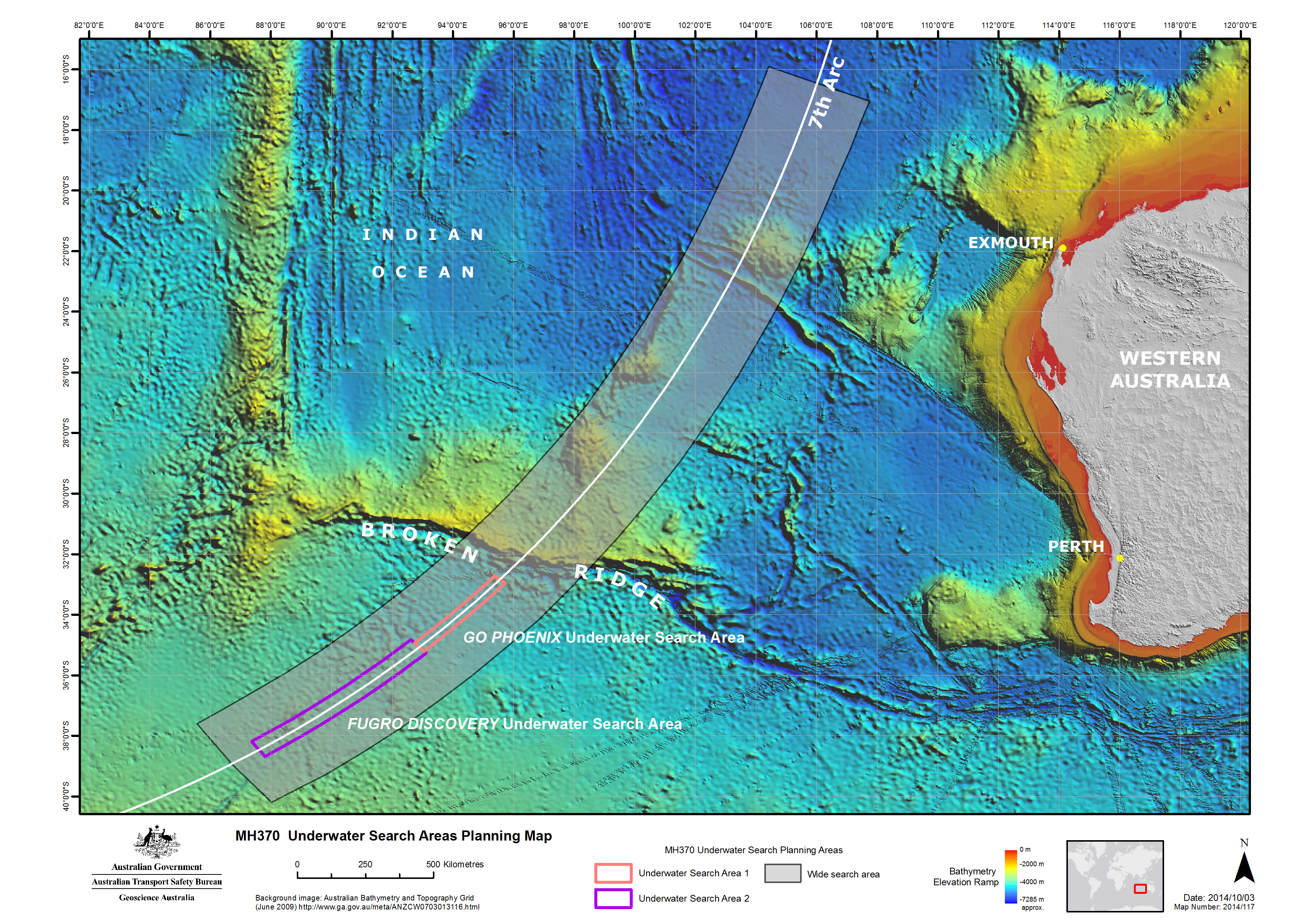 Map of the region to be searched for Malaysia Airlines Flight 370 as of October 2014.